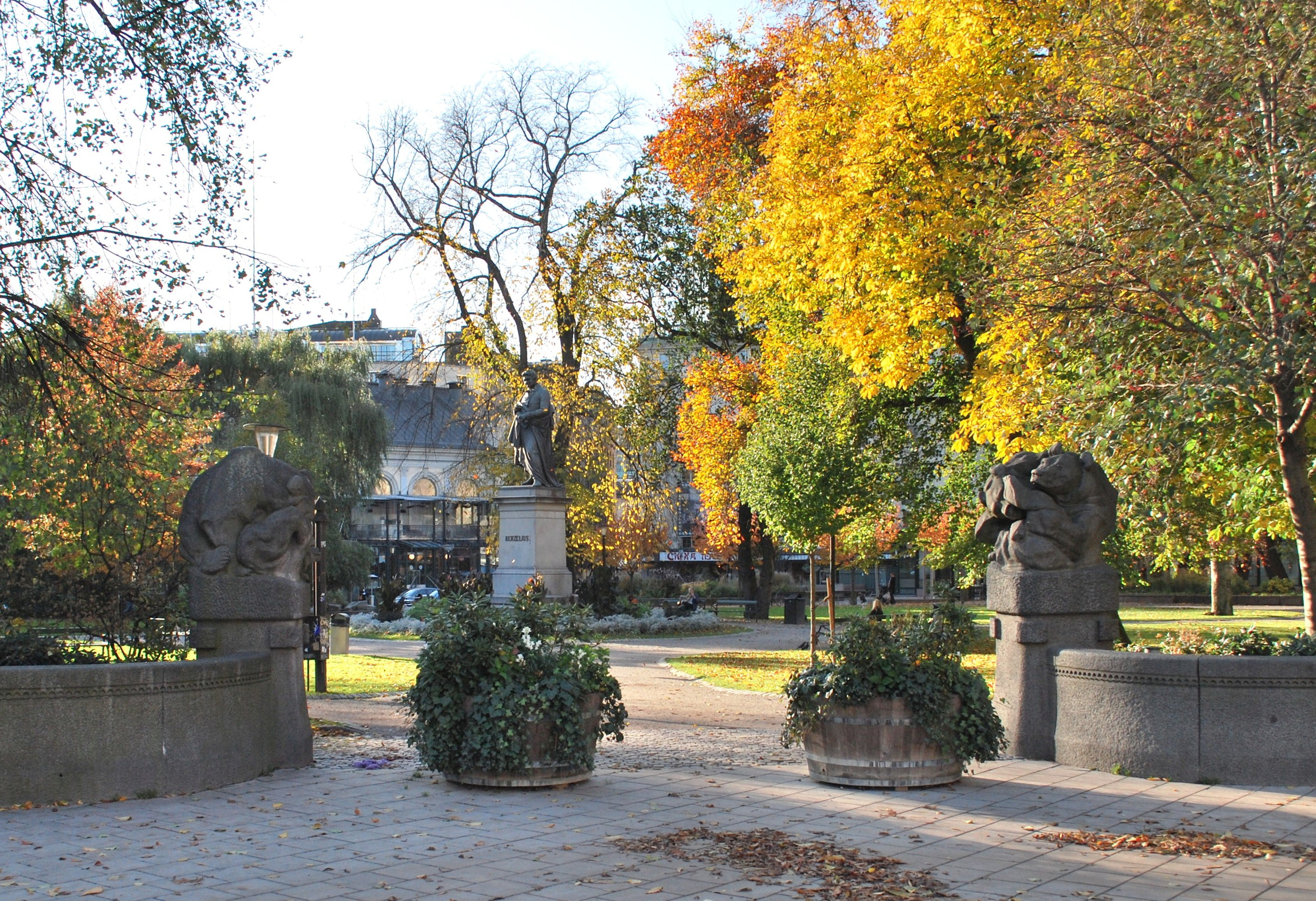 Berzelii park, entrance, by Nybroviken, Stockholm